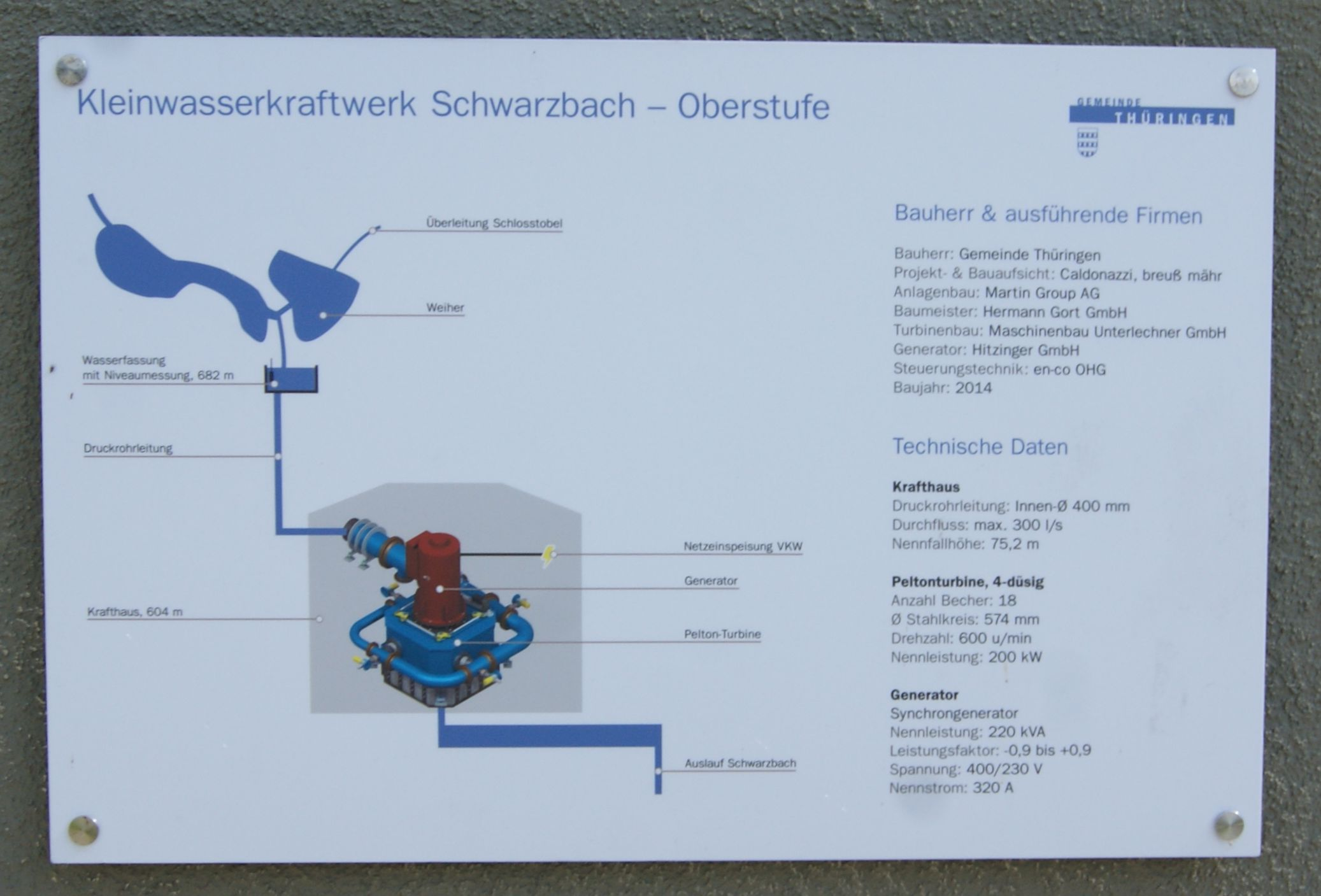 Power plant "Montiola" in the parish Thüringen in Vorarlberg, Austria. Information board